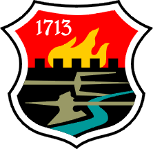 COA-Tolmin